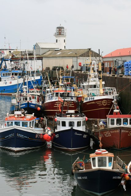 Scarborough's Fishing Fleet Depleted and moored up in the Old Harbour.